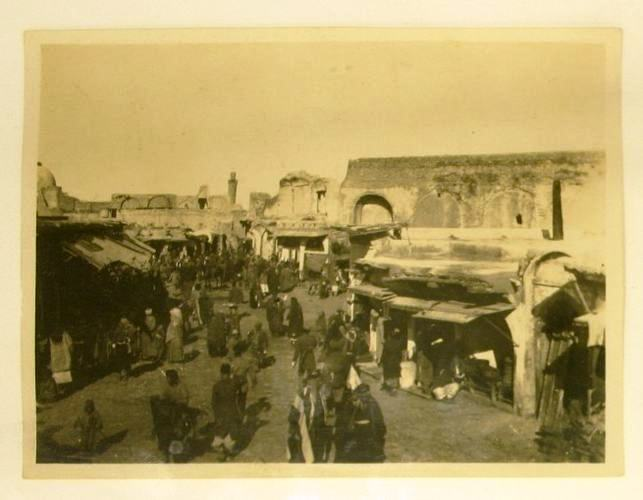 Street Scene, Baghdad, Iraq, World War I, 1916-1919